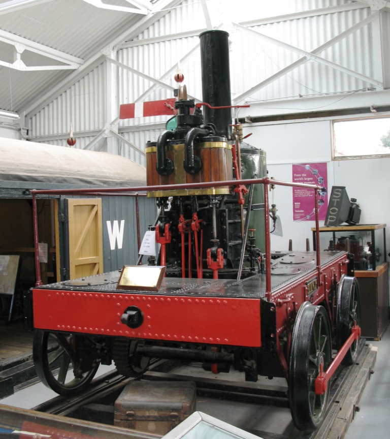 South Devon Railway 0-4-0vb locomotive Tiny. Built in 1868 by Sara and Company of Penryn, Cornwall, it was designed to be used around the docks at Plymouth. Withdrawn from service in 1883 it was kept at Newton Abbot workshops to power machinery and is now on display in the railway museum at Buckfastleigh, Devon, England.